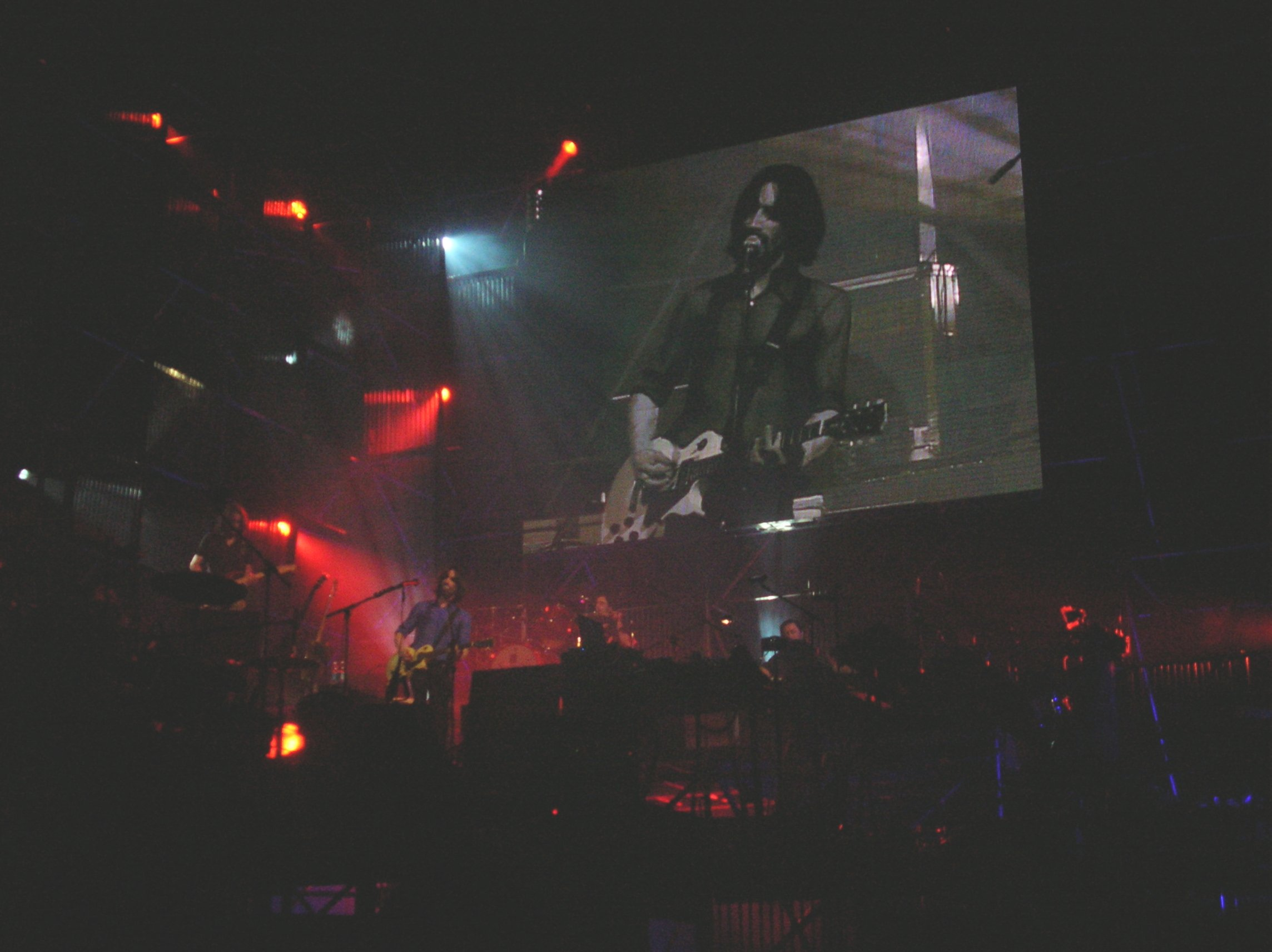 Marlene Kuntz playing at "Volumi all'idrogeno", in Torino (Italy) on April 23, 2006